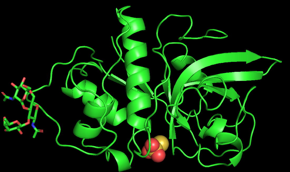 Generated with PYMOL. Shows 1 monomer of zingibain (which may also exist as a tetramer).